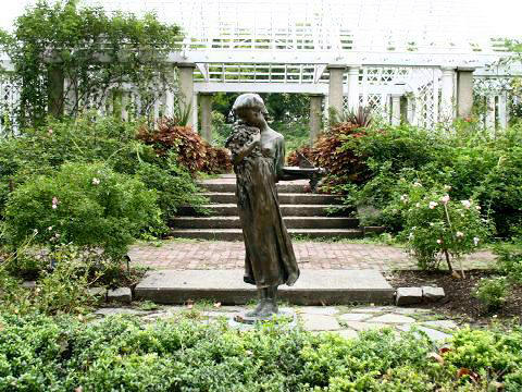 Description: Brooklyn Botanic Garden - Source: own work - Author: self, User:Stavenn